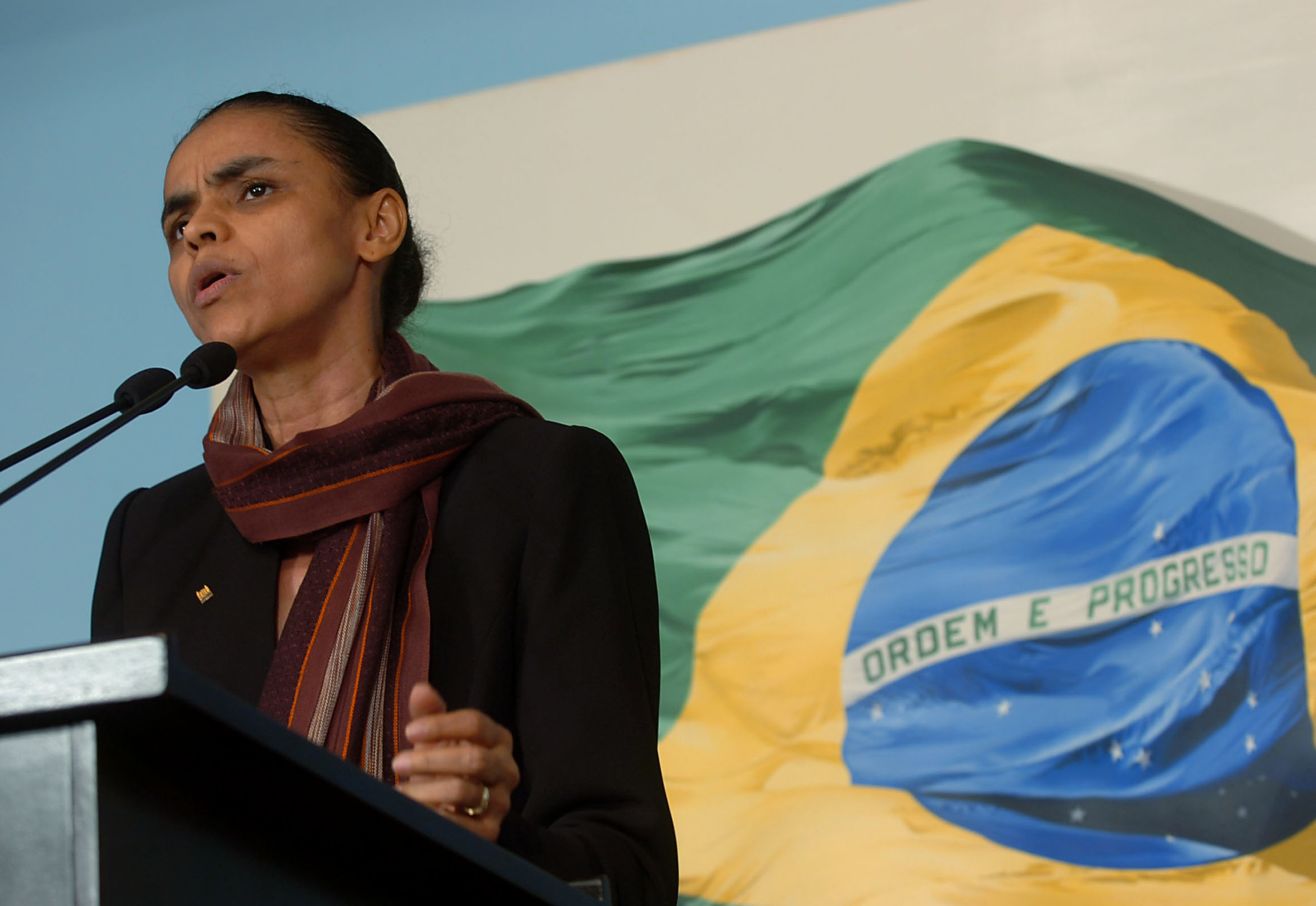 Brasilia. Environment Minister Marina Silva announces the creation of the Chico Mendes Institute for Biodiversity Conservation.